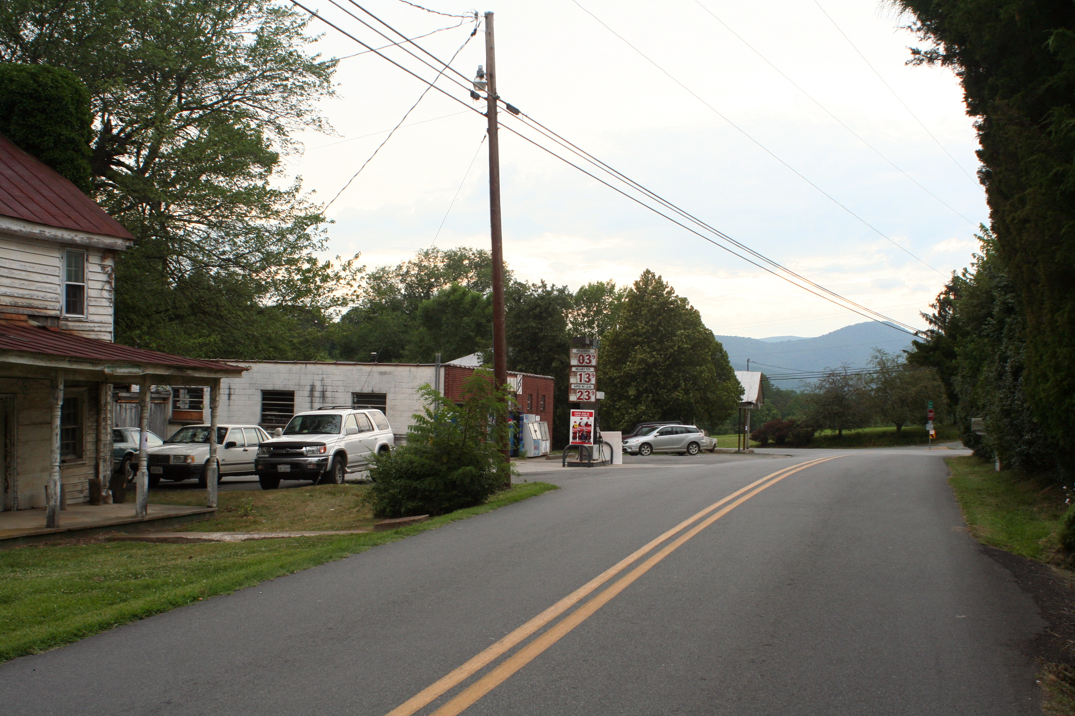 A photograph of downtown Free Union, Virginia, USA.